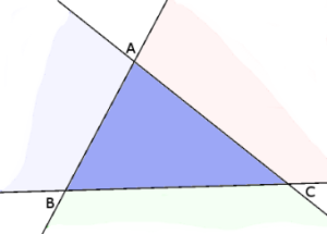 Definition of a Triangle